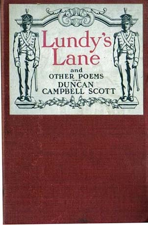 Book cover of Lundy's Lane and Other Poems, by Duncan Campbell Scott